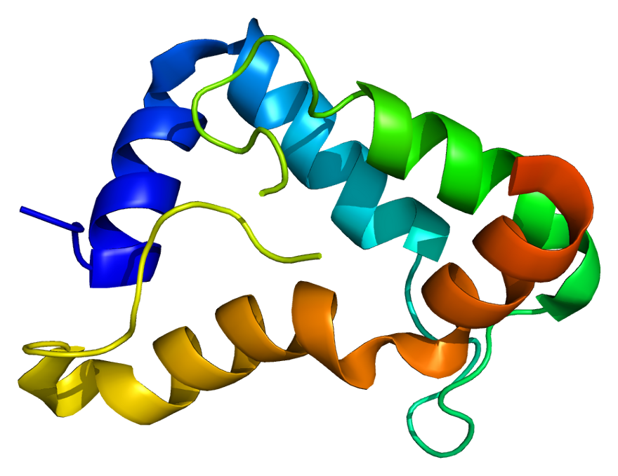 Structure of the GFRA1 protein. Based on PyMOL rendering of PDB 1q8d.